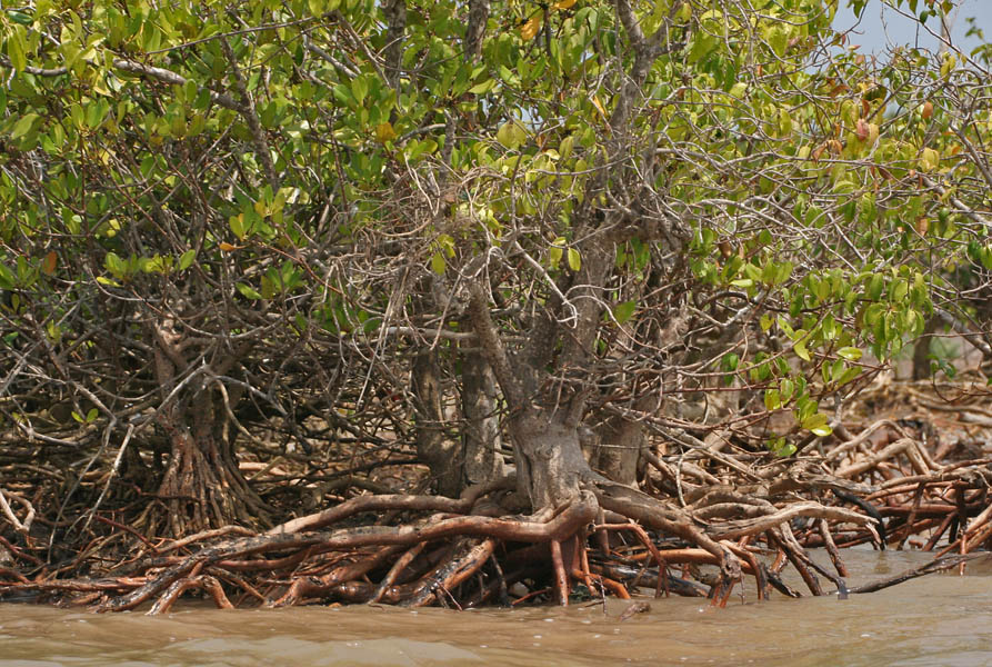 Blind Your Eye Excoecaria agallocha in Krishna Wildlife Sanctuary, Andhra Pradesh, India.